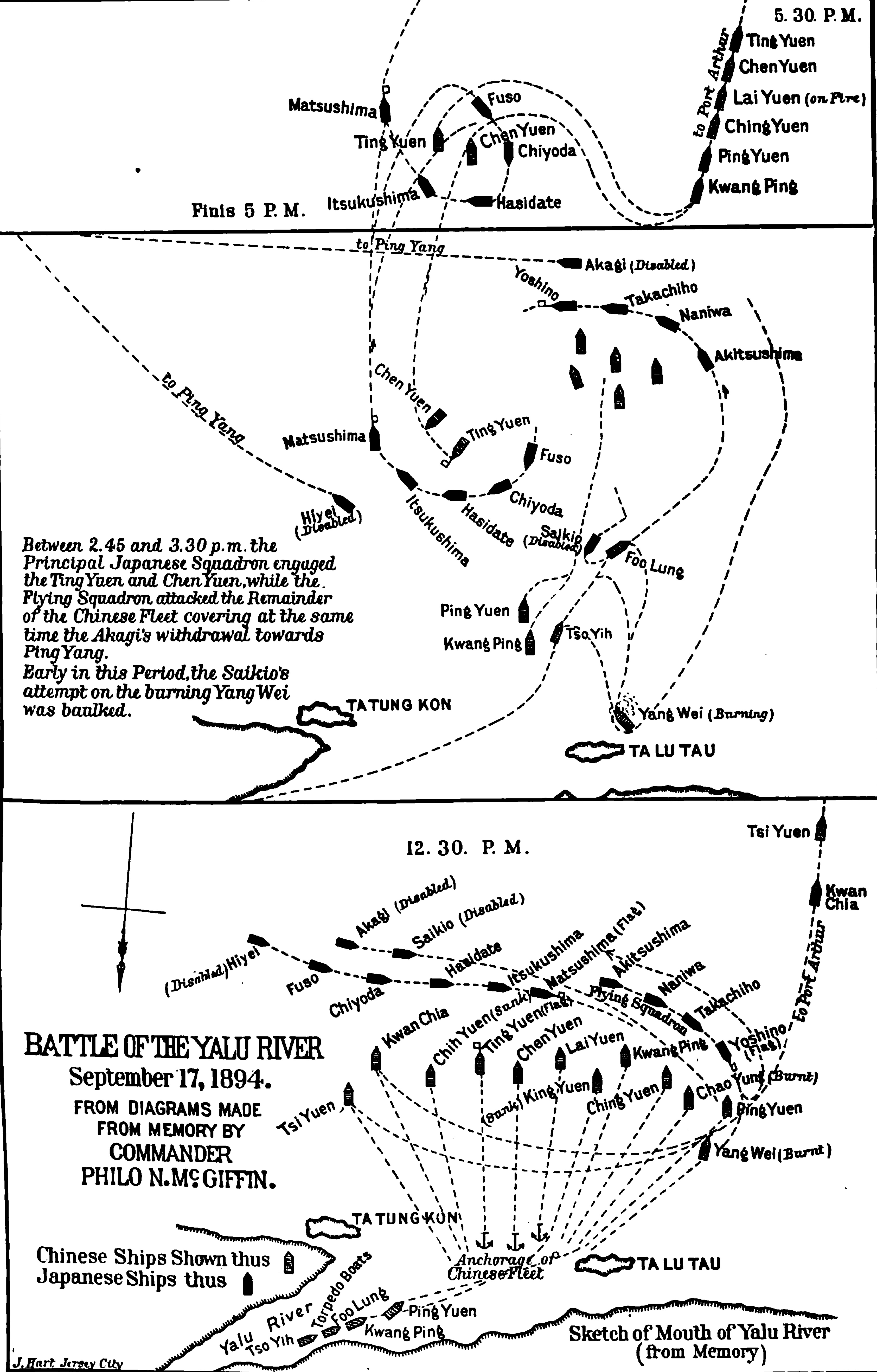 Sketch map of Battle of the Yalu River, 17th September 1894 as part of the First Sino-Japanese War